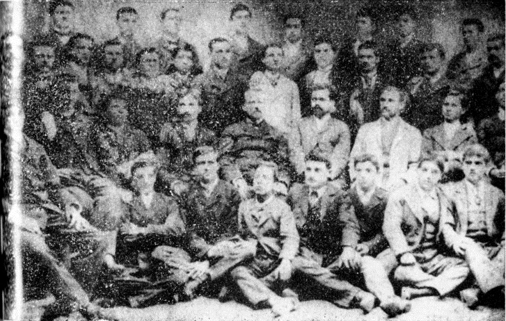 Teachers_and_Students_in_the_Kyustendil_Pedagogical_School,_1894.jpg